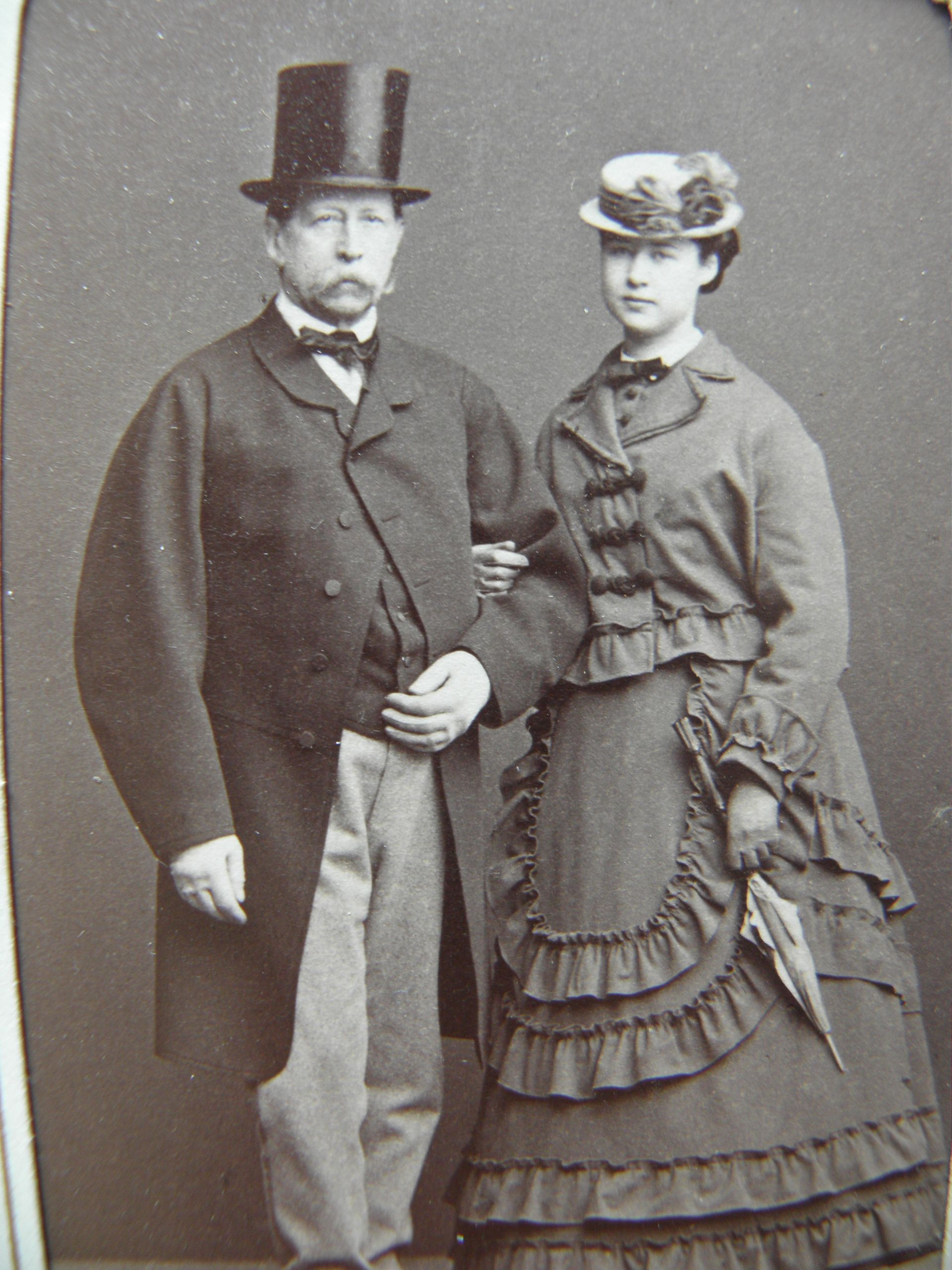 Lobkowicz Josef (1803-75) and his daughter Berta (Brühl,1851-87)